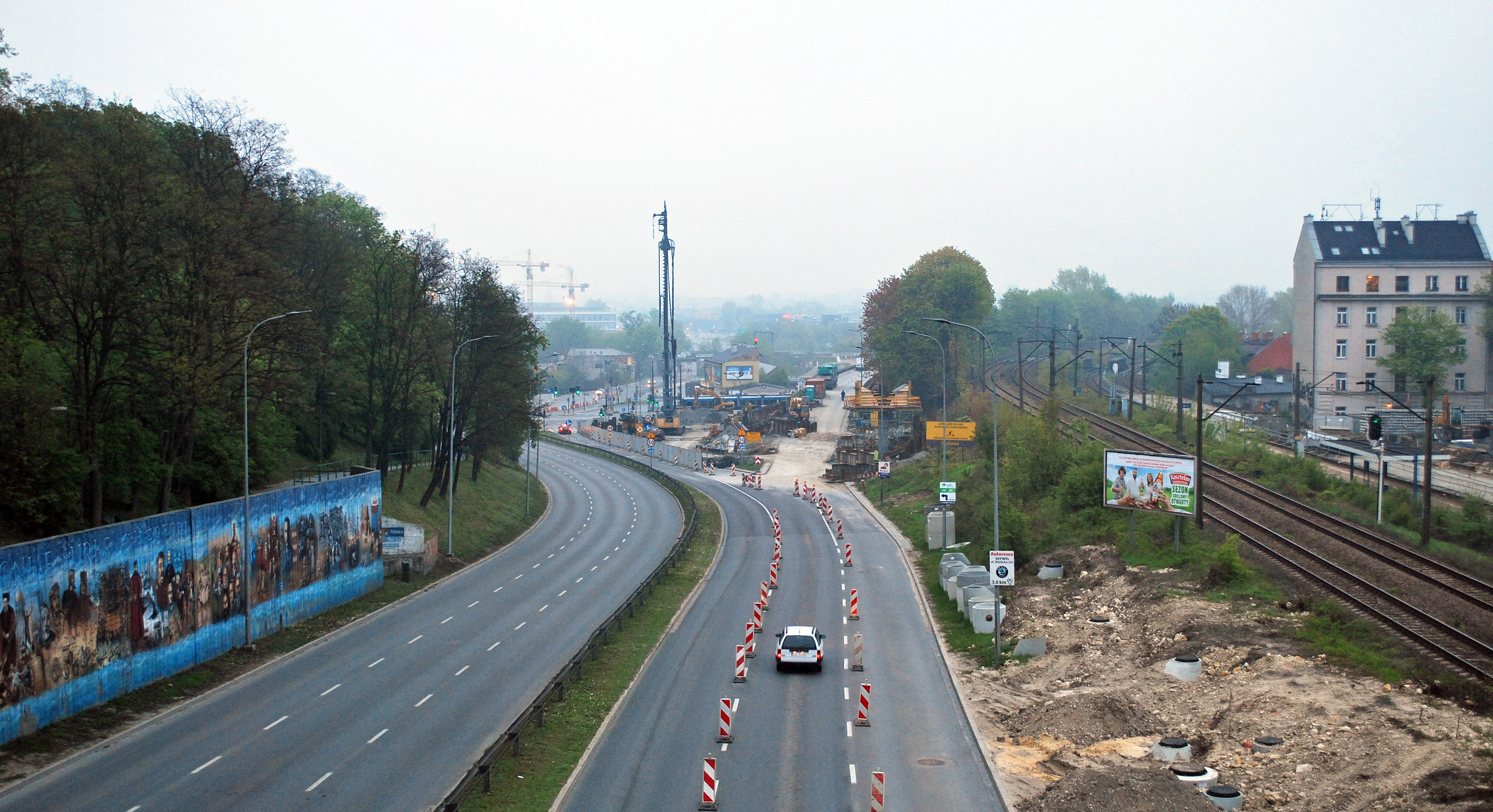 Railway line 624 (under construction), Powstancow Slaskich Av, Podgórze, Krakow, Poland